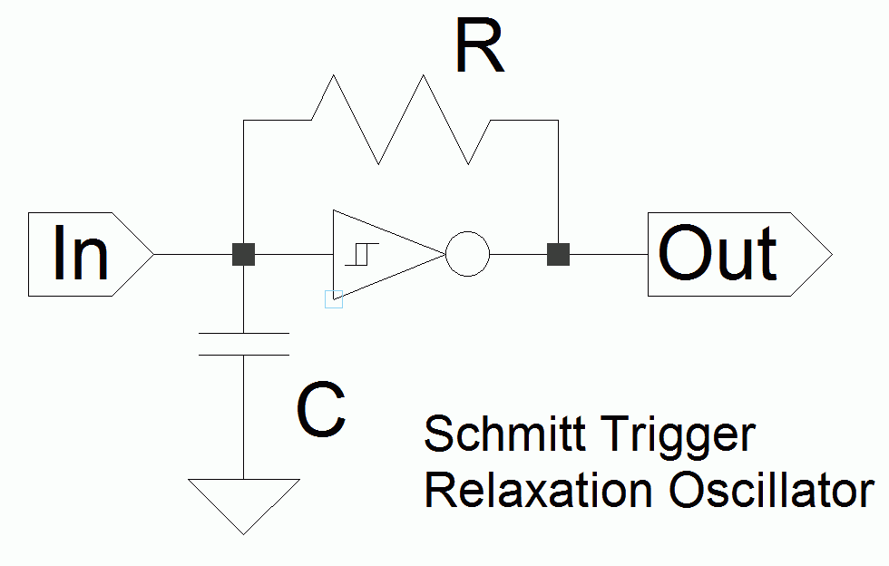 Electronic circuit schematic for a relaxation oscillator consisting of a resistor, capacitor, and a Schmidt trigger inverter IC.